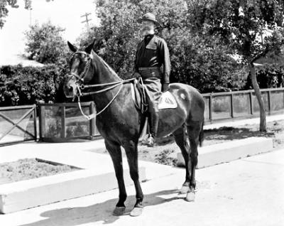 Photograph of United States Army Colonel Selah H.R. "Tommy" Tompkins, 2nd Cavalry Brigade, on June 16, 1919 in the Ciudad Juarez Racetrack.